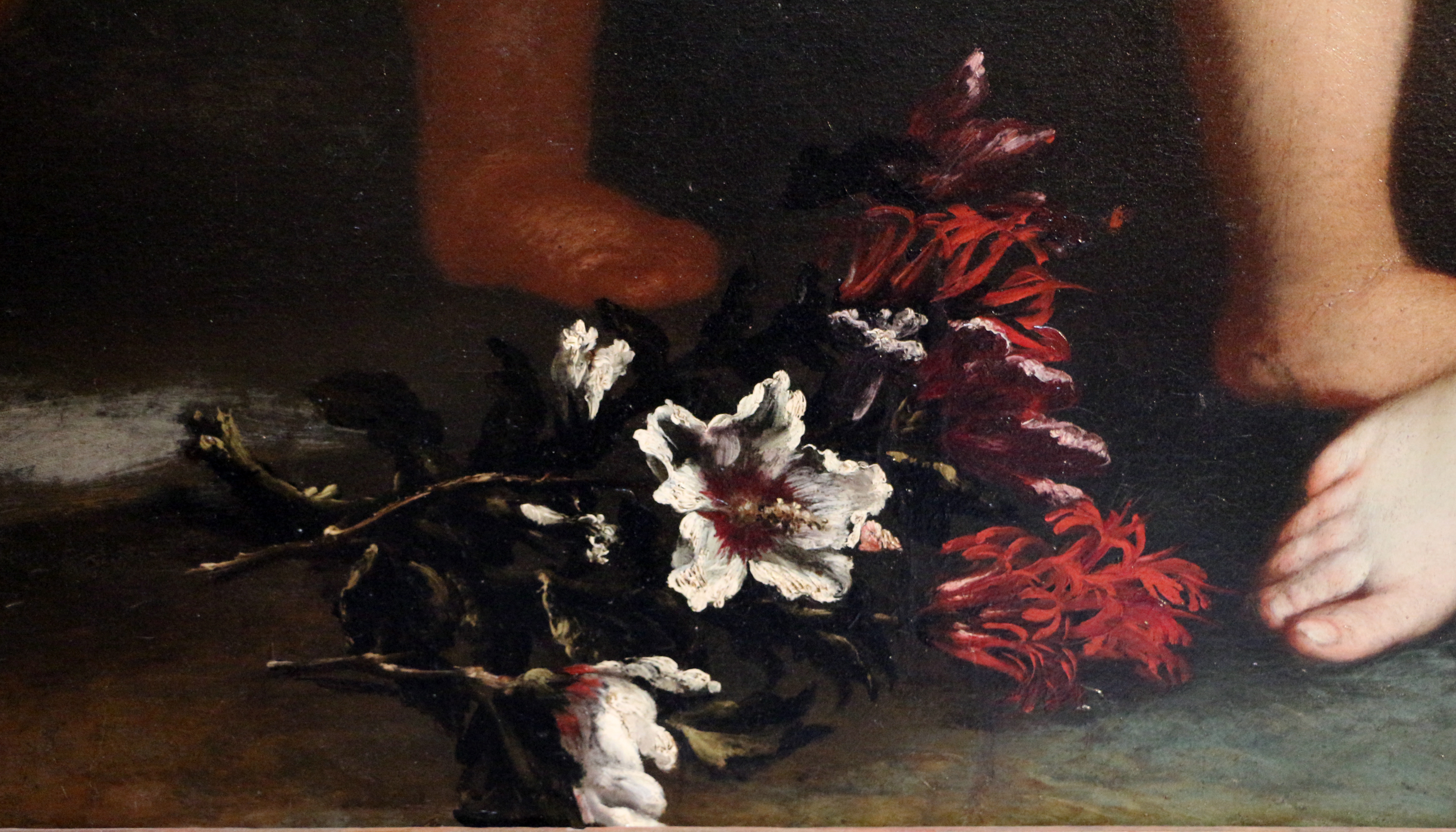 Il Tesoro d'Italia (exhibition at Expo 2015)